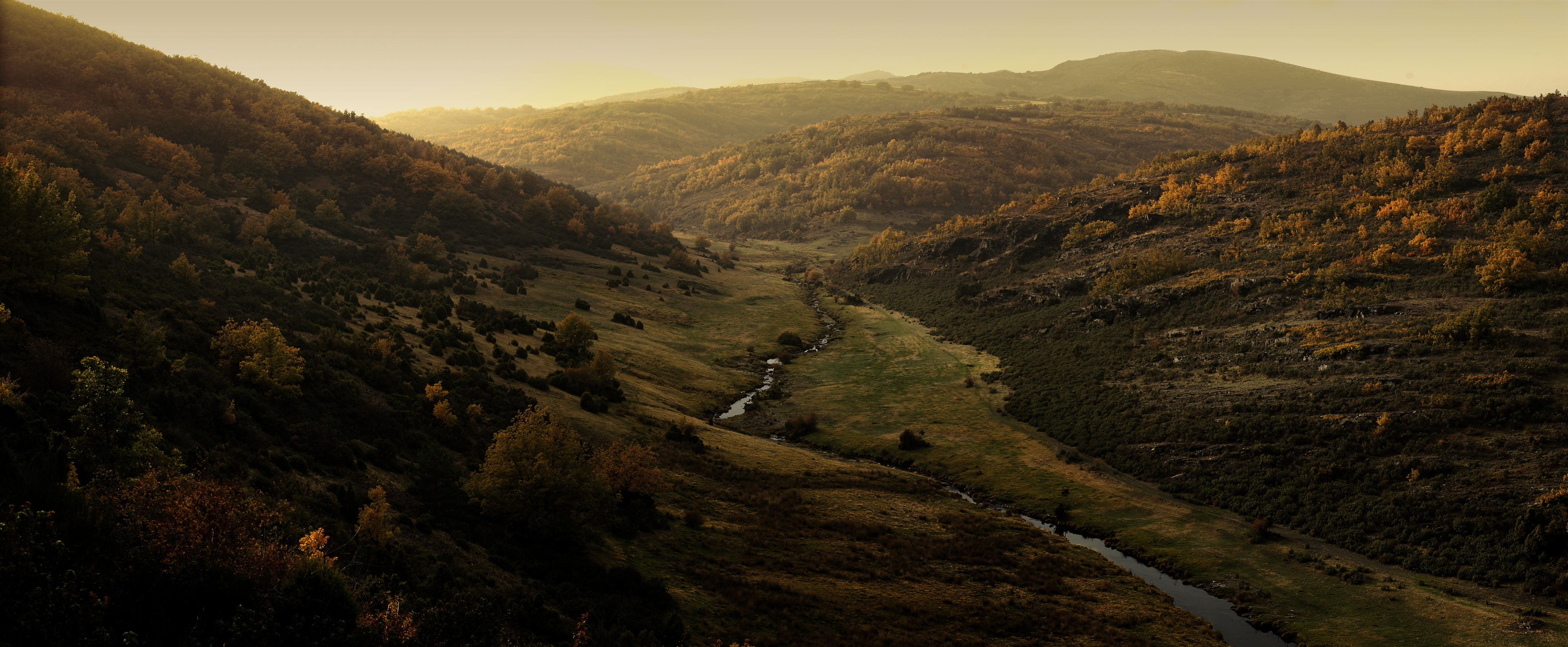 Lillas river canyon in the Tejera Negra beech grove (Cantalojas, Guadalajara, Spain).